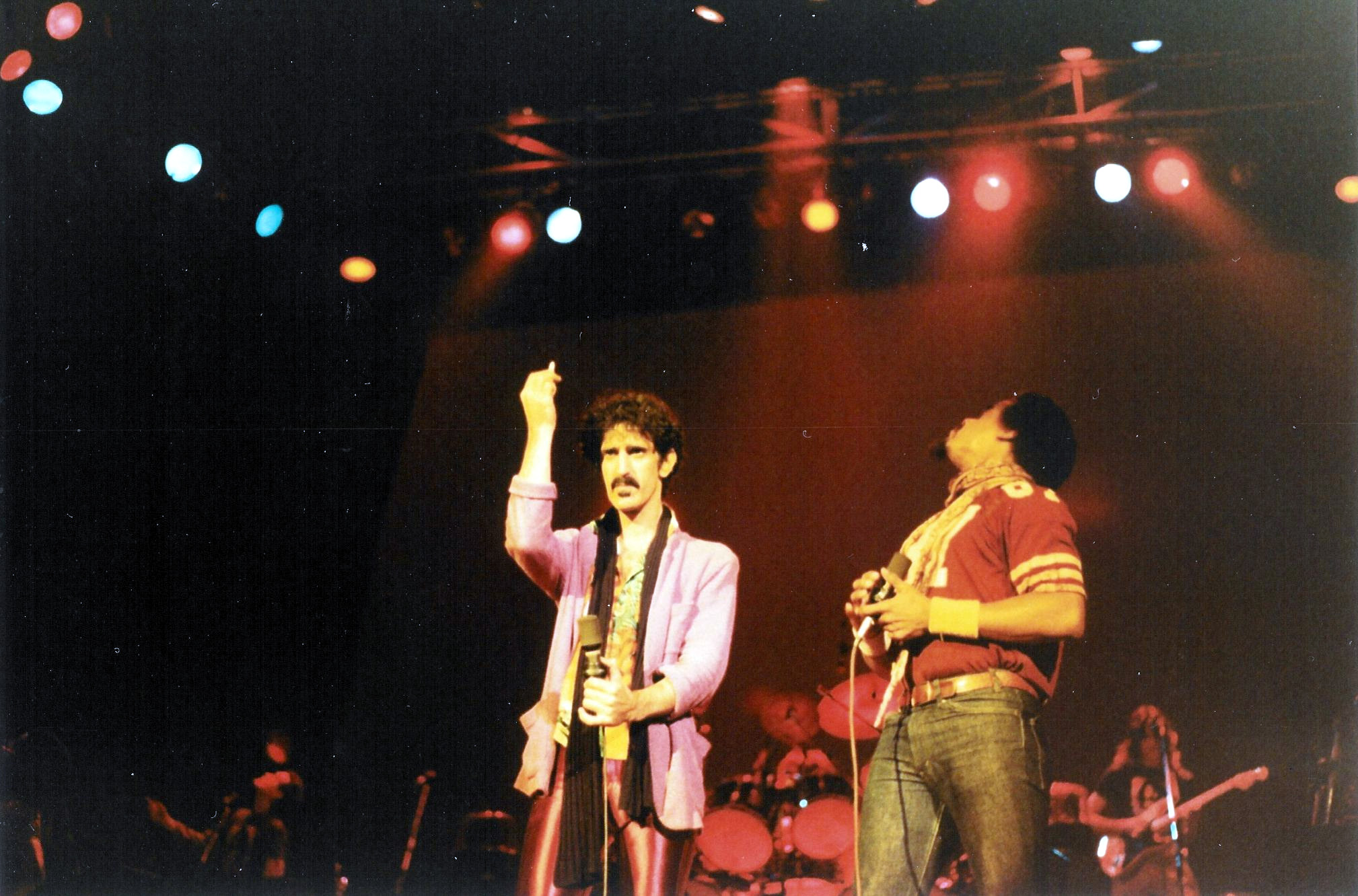 Frank Zappa and Ike Willis, Memorial Auditorium, Buffalo, NY. Oct 25, 1980